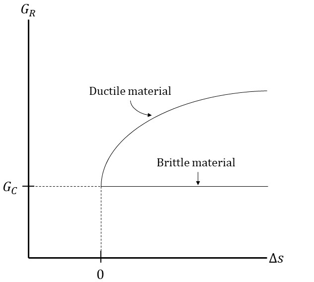 This file is a figure of an example R-curve of a brittle material and an example R-curve of a ductile material. This figure exhibits key properties of the R-curve of each material (constant R-curve for brittle materials and continuously increasing R-curve for ductile materials)